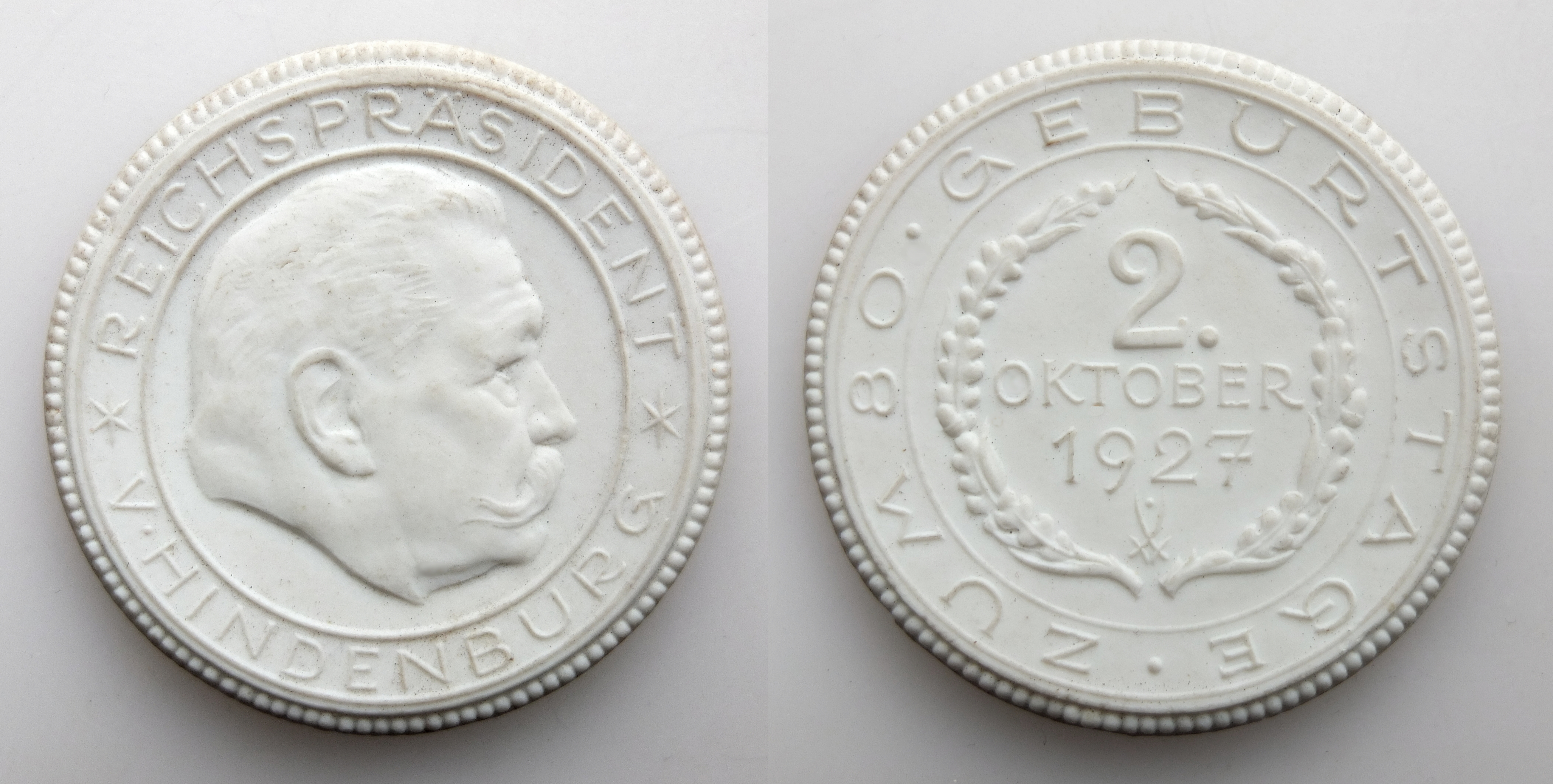 Porcelain medal in honour of the 80th birthday of Paul von Hindenburg on Oct. 2, 1927,produced by Staatliche Porzellan-Manufaktur Meissen, Germany, diam. 46 mm.